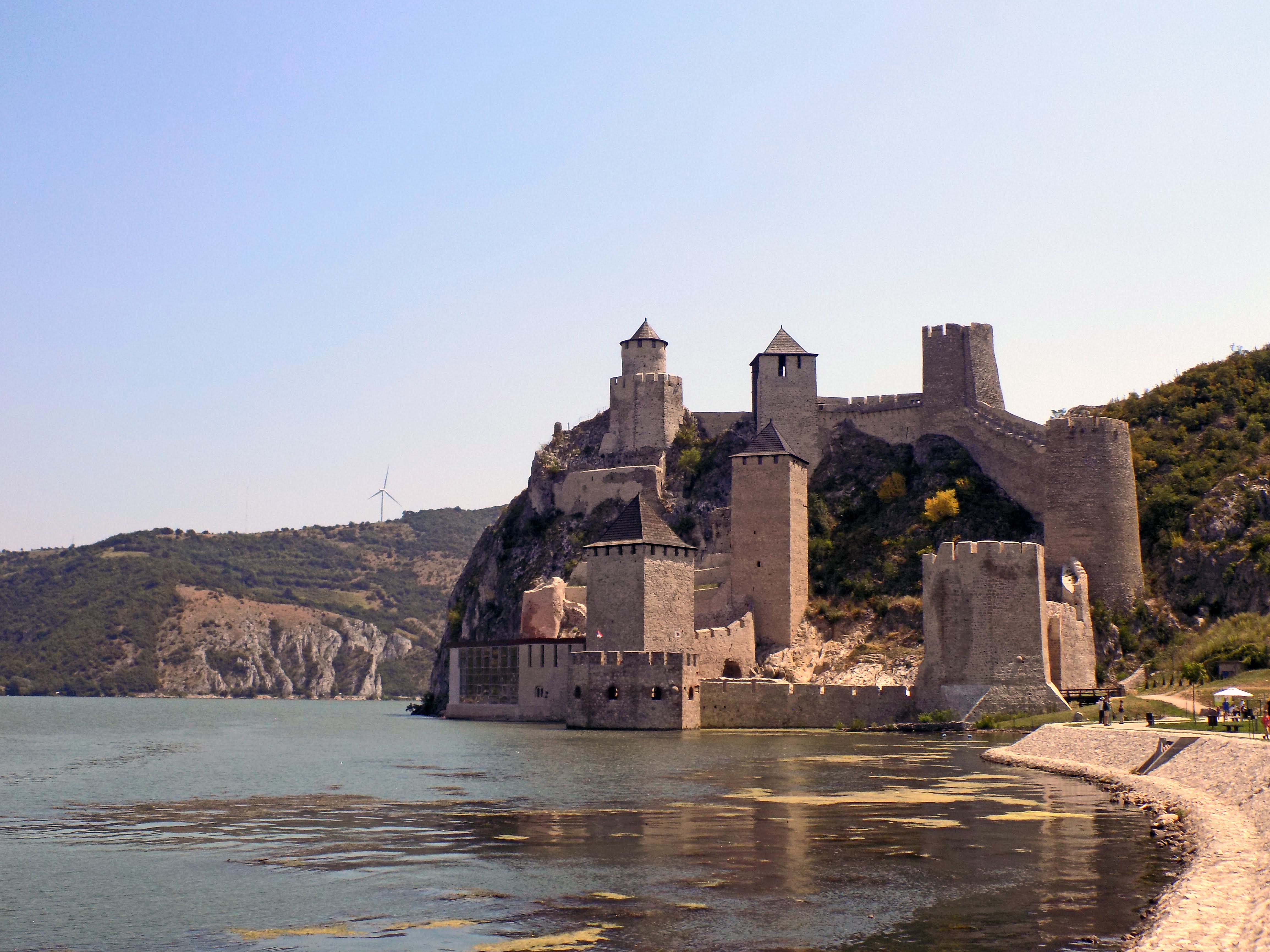 Golubac Fortress after renovation, completed in March 2019